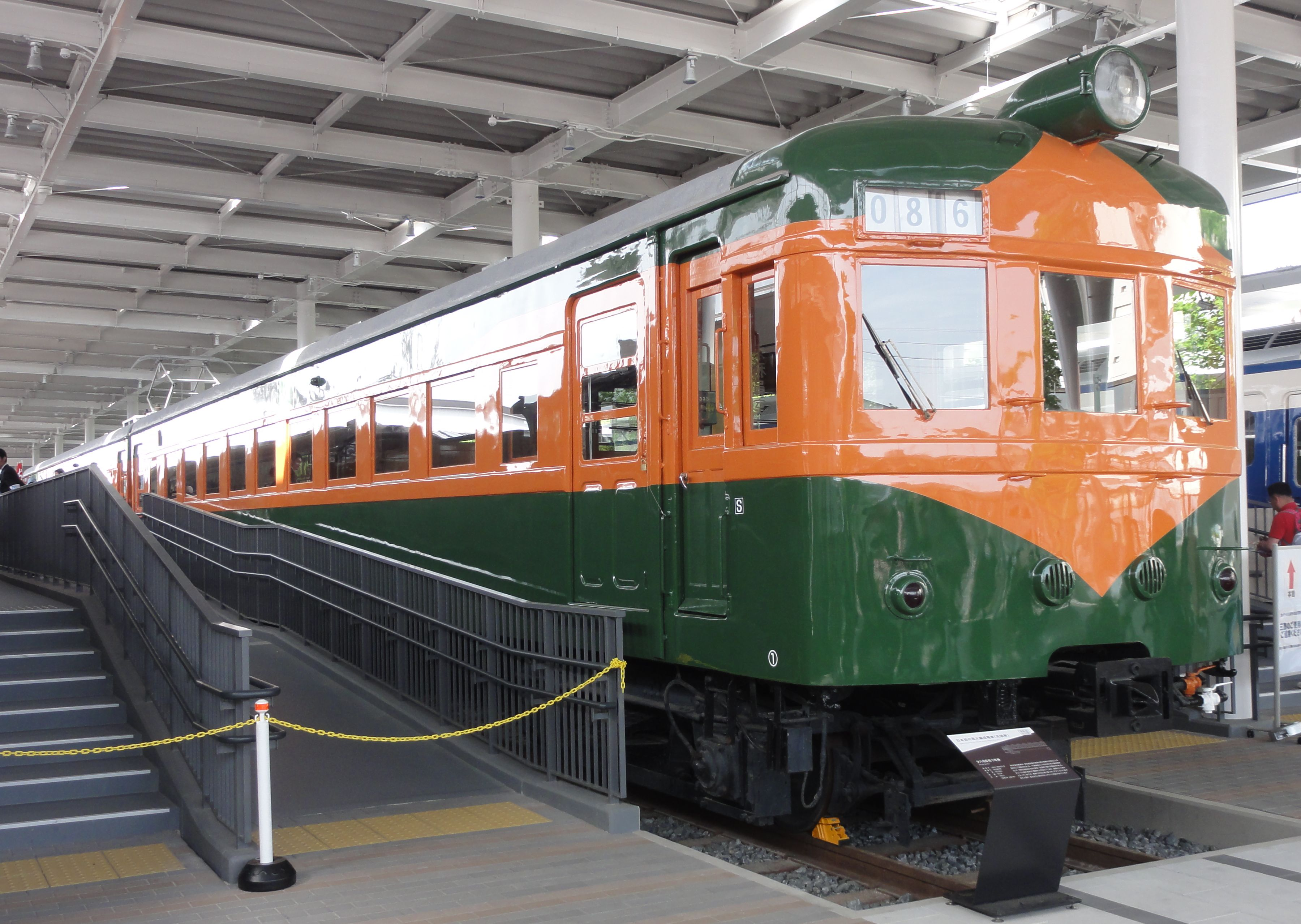 Former JNR 80 series EMU car KuHa 86001 at the Kyoto Railway Museum